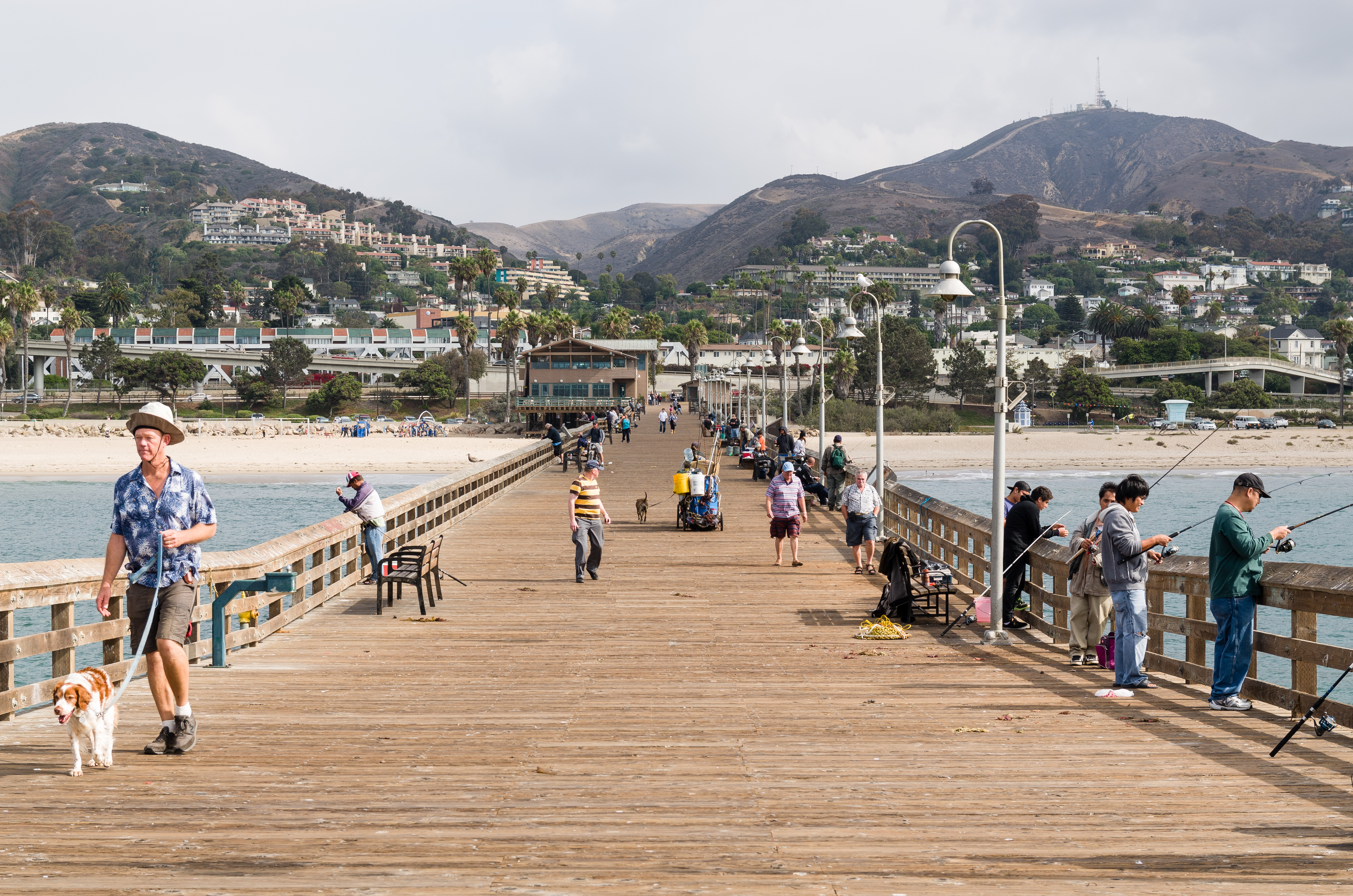 Fishing at Ventura Pier, San Buenaventura State Beach, Ventura, CA, USA